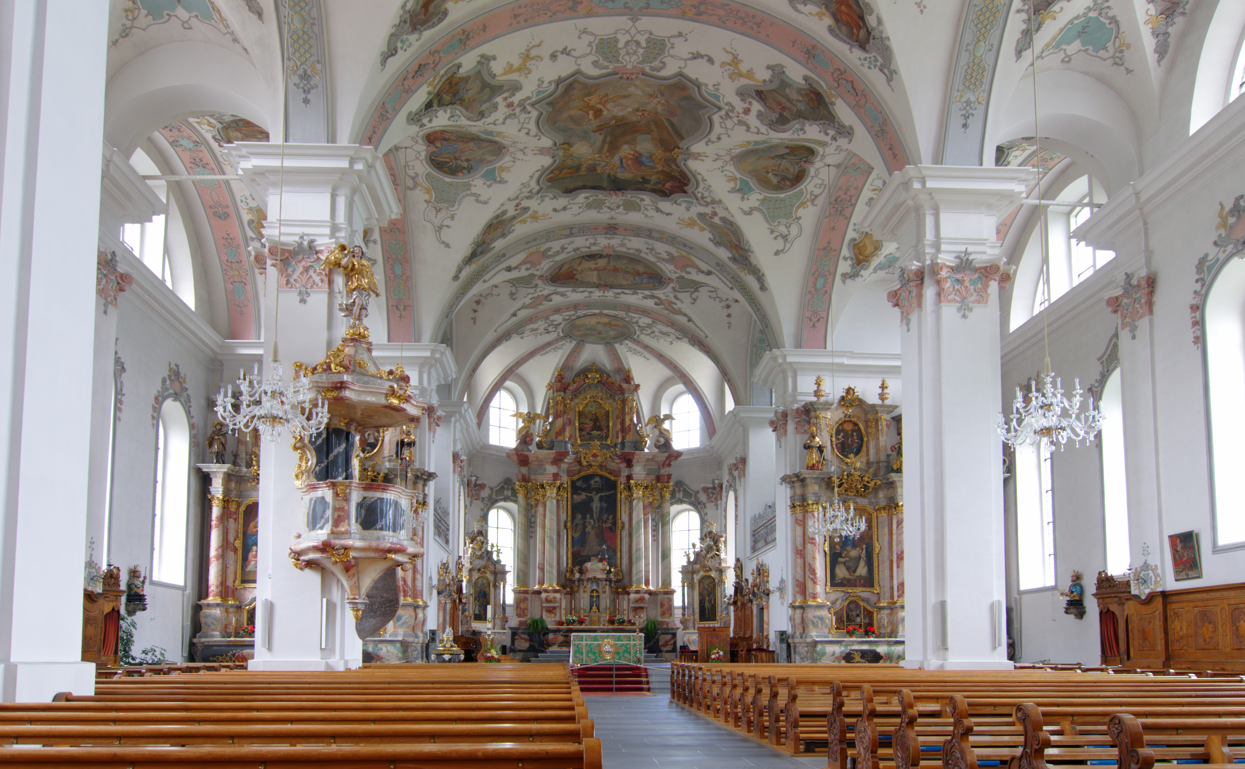 Interior of St. Peter and Paul Parish church in Sarnen